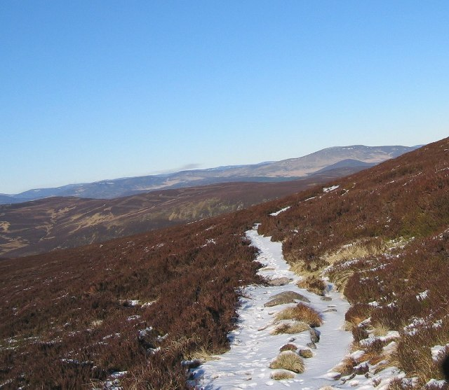 Mounth Road. More like a path as it contours around Mount Keen